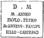 Inscription in a tomb of the Via Severiana at Ostia. CIL XIV, 566 = AE 2000, 249 = AE 2000, 264: D(is) M(anibus)/ M(arco) Anneo/ Paulo Petro/ M(arcus) Anneus Paulus/ filio caris(s)imo